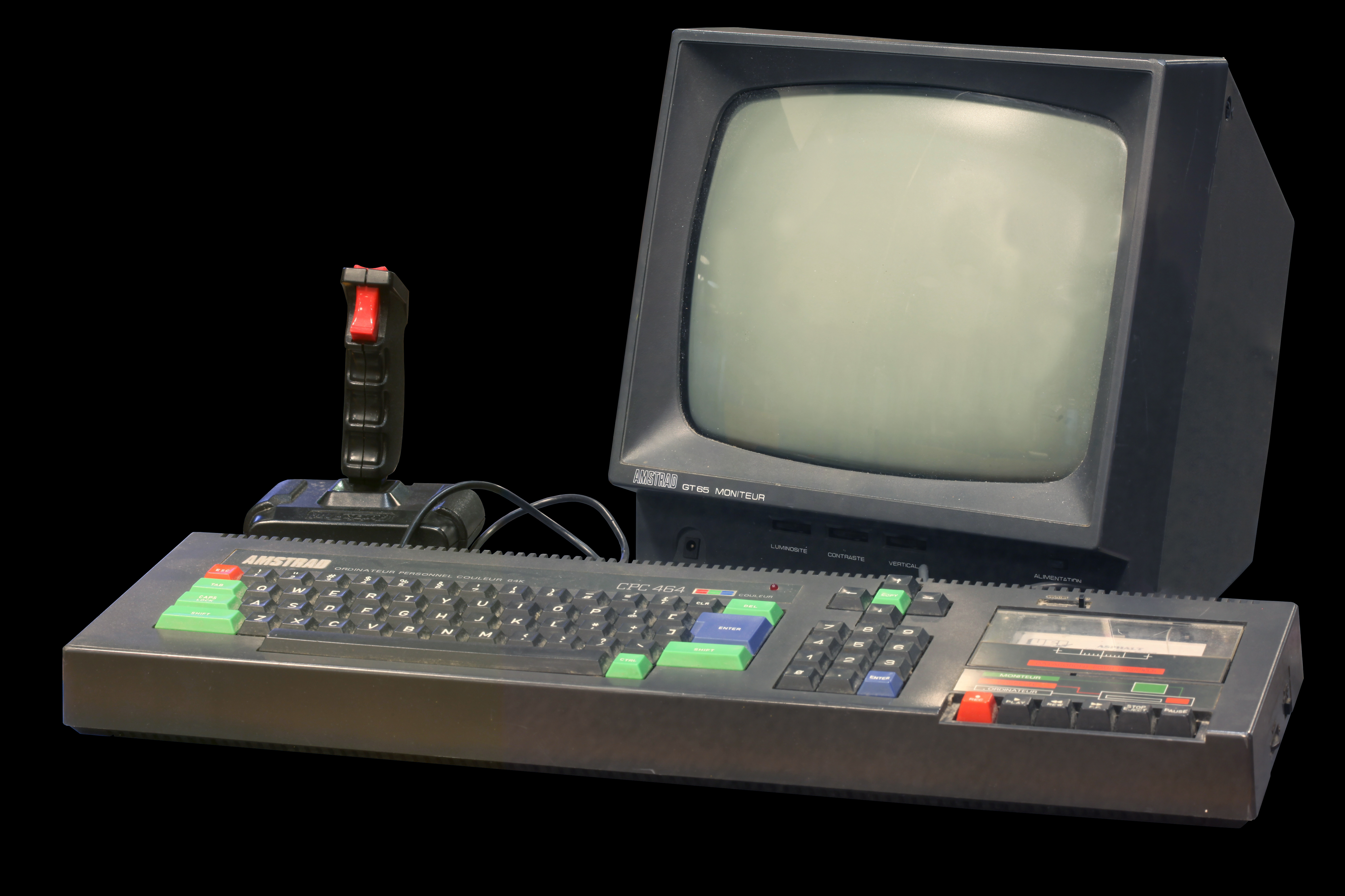 Amstrad CPC 464 with a GT65 monitor. On display at the Cité des Sciences et de l'Industrie